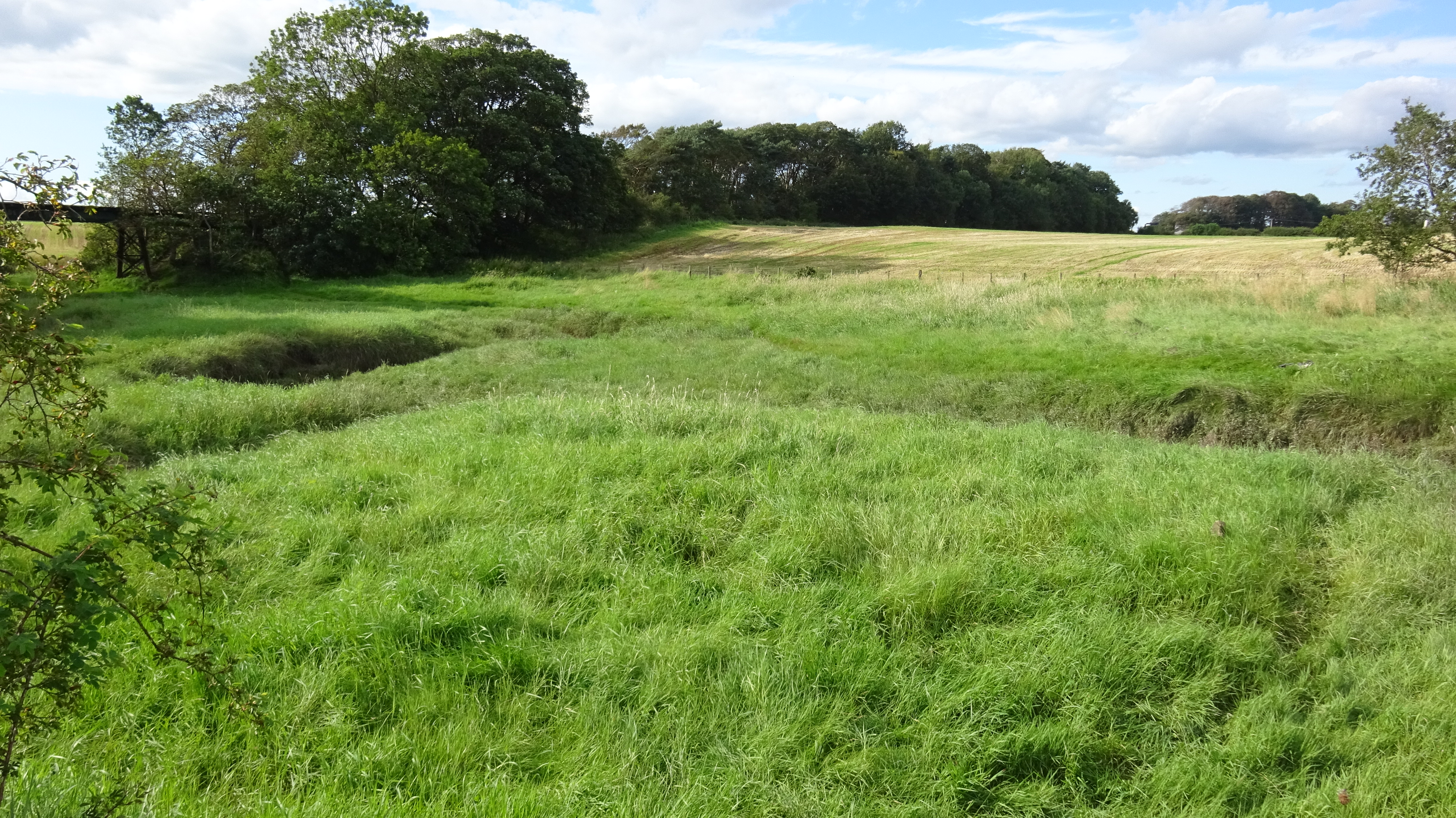 Old Mill Burn bridge on the old Newbie Branch railway and site of old lane and ford.